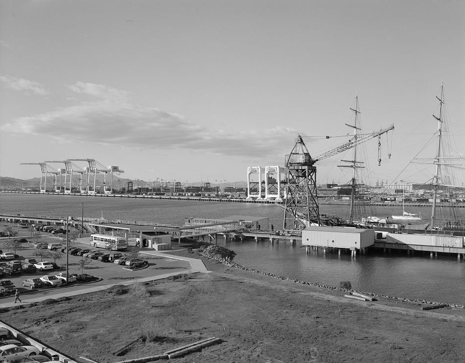 United Engineering Company Shipyard — 2900 Main Street, Alameda, Alameda County, California. Looking northwest past the crane at the west end of the project area, toward the Oakland Estuary channel, and Mt. Tamalpais behind the cranes in the far distance.